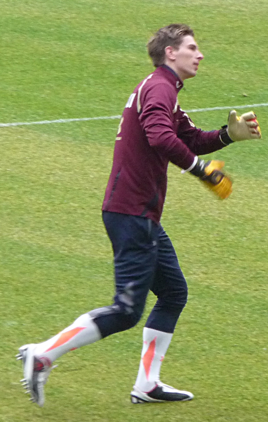 Ron-Robert Zieler (Goalkeeper Hanover 96)